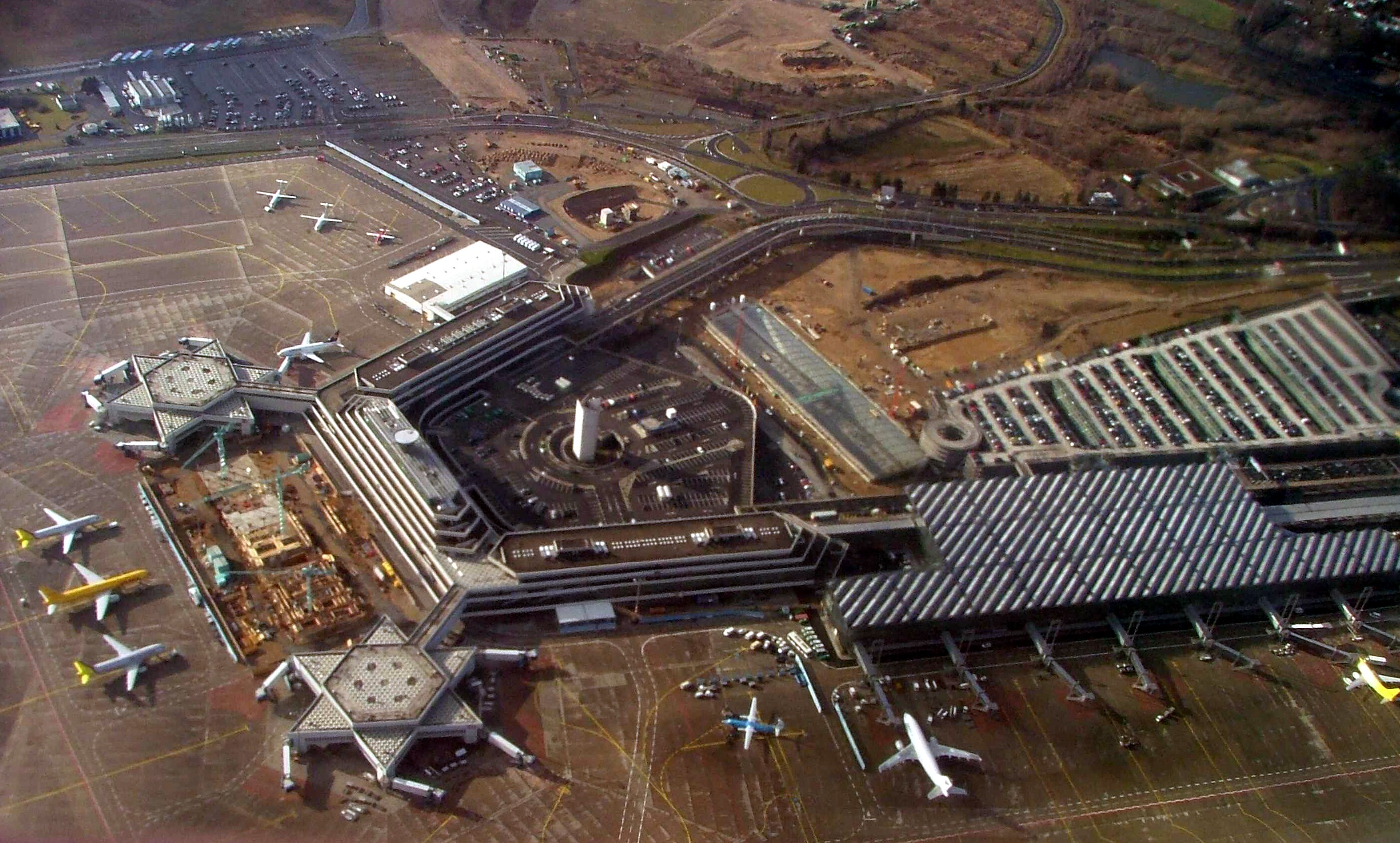 Aerial view of the Cologne Bonn Airport, made in February 2004